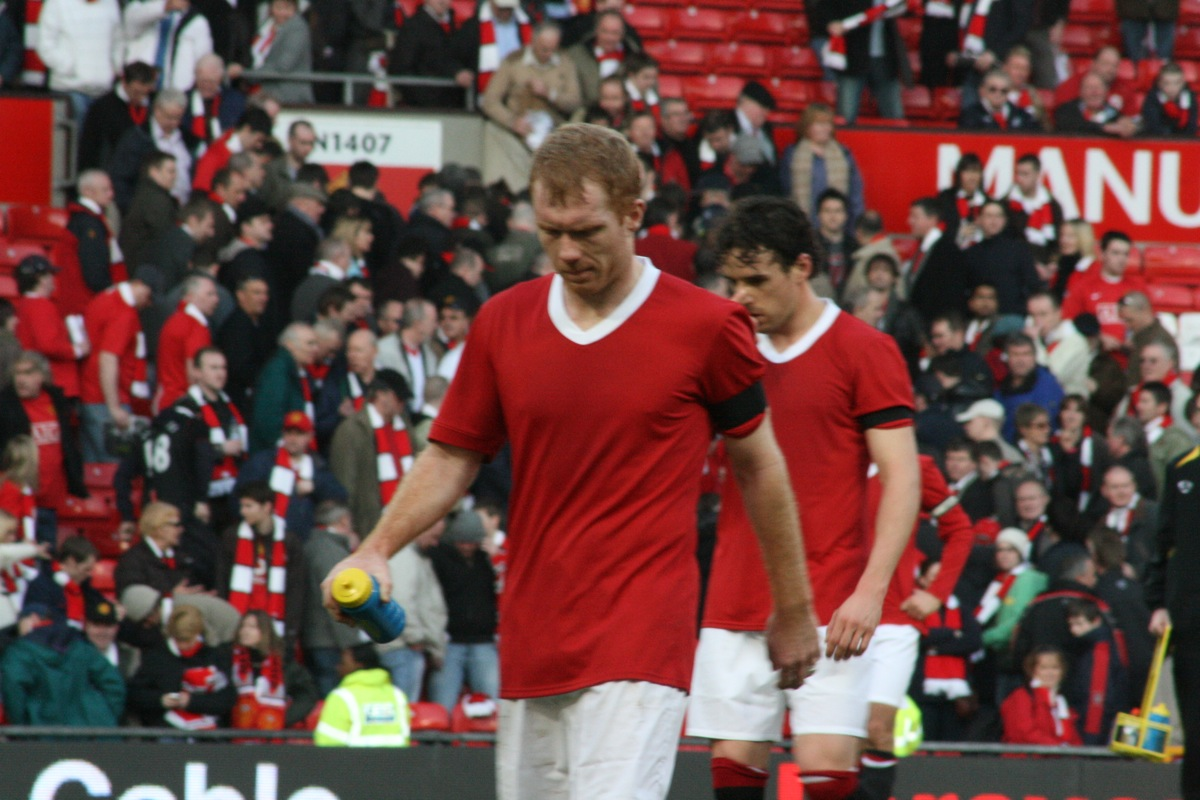 Paul Scholes after match against Manchester City